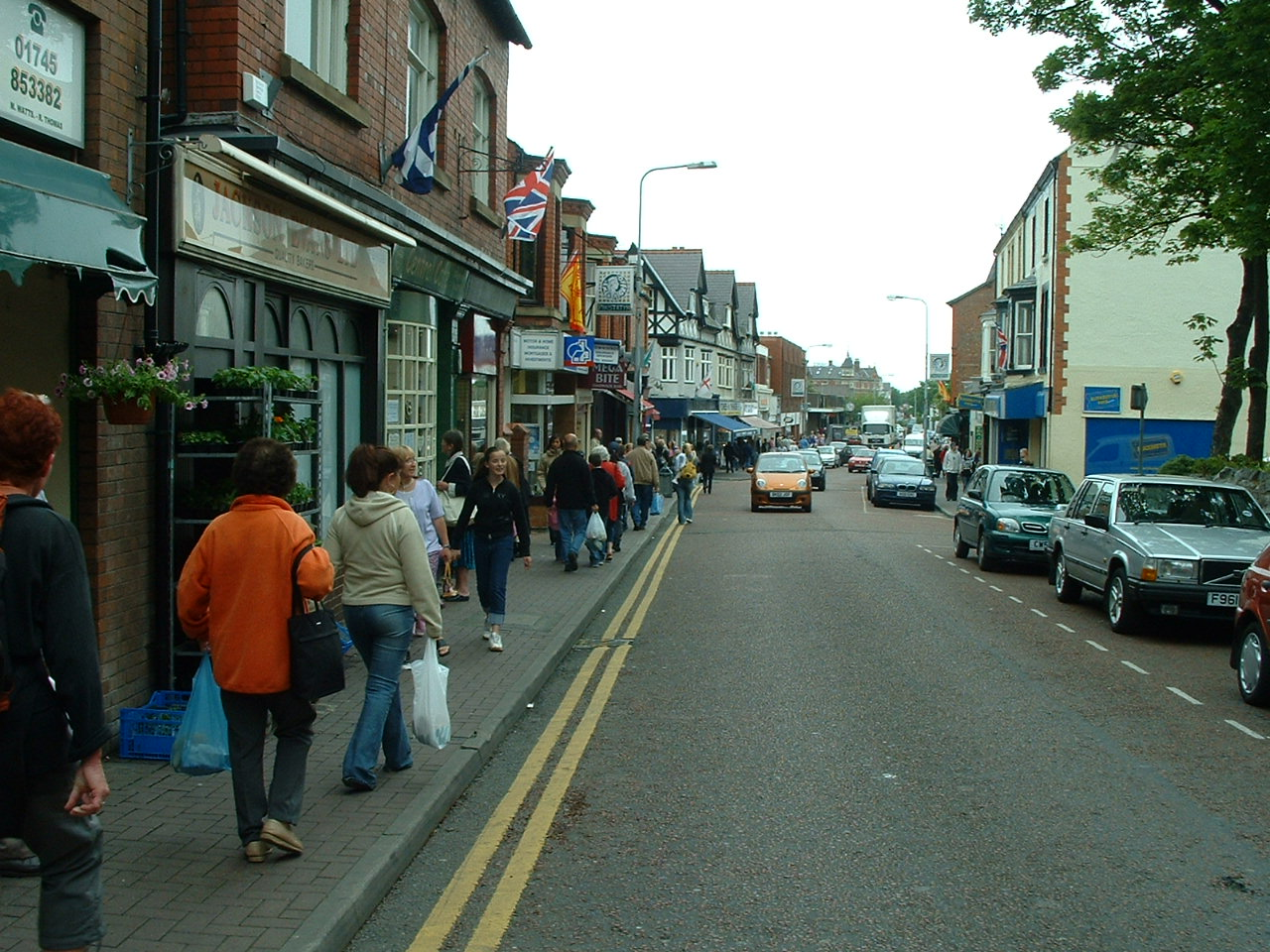 Prestatyn, Wales